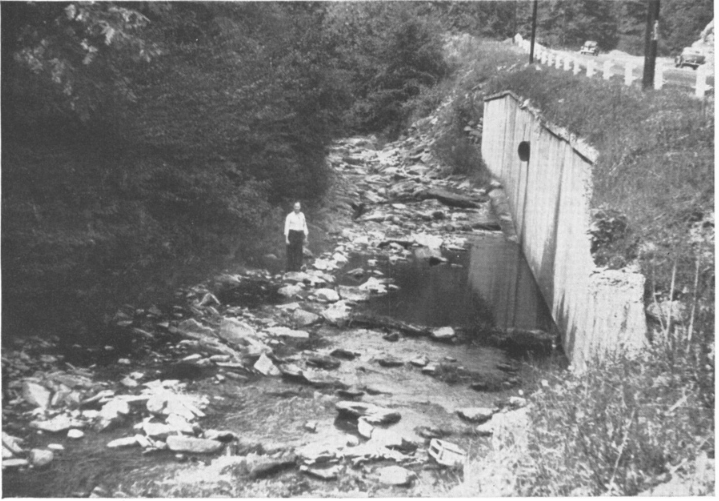 Leggetts Creek near coal measures, 12,000 feet upstream of its mouth.